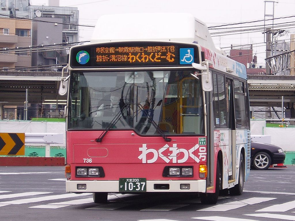 Kokusai Kogyo Hino KK-HR1JEEE bus number 736 "Wakuwaku" in front of Asaka Station in Saitama Prefecture